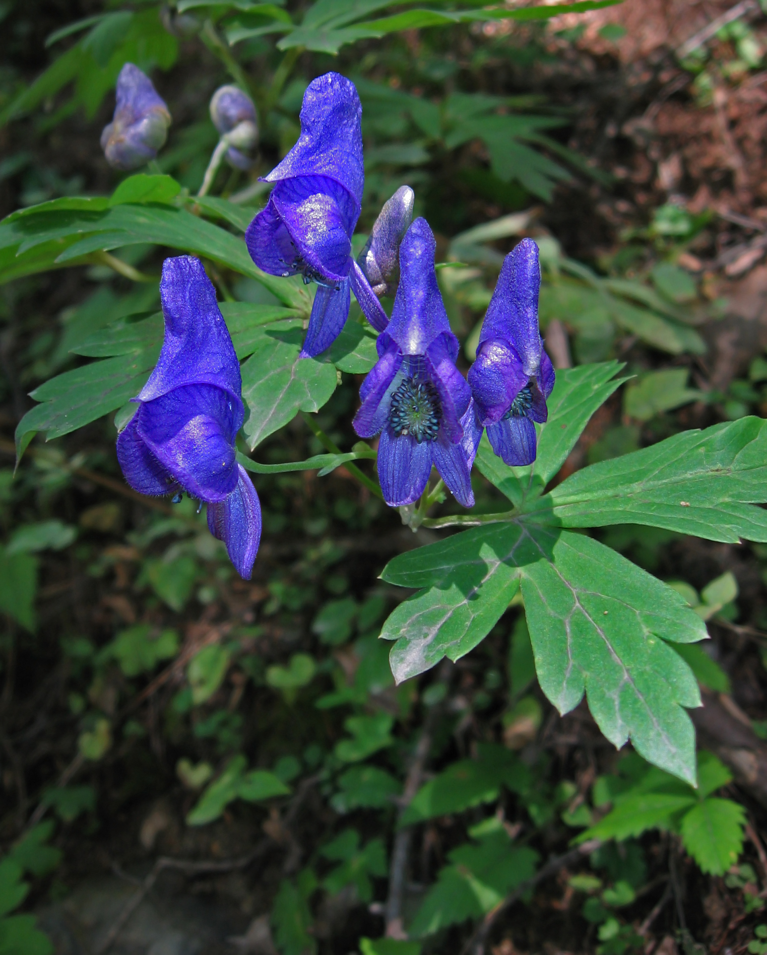 Aconitum japonicum var. montanum